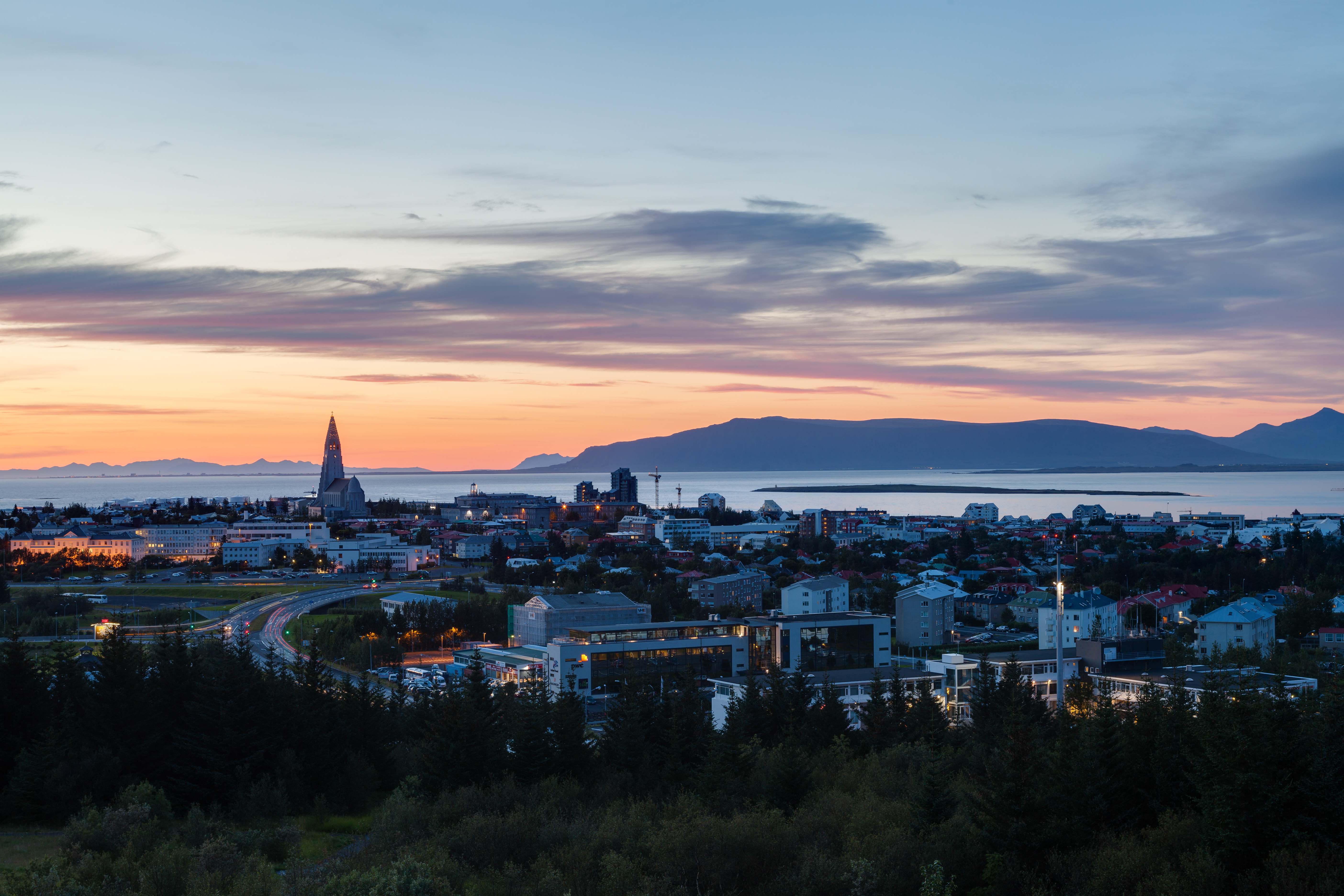 View of Reykjavik from Perlan, Capital Region, Iceland